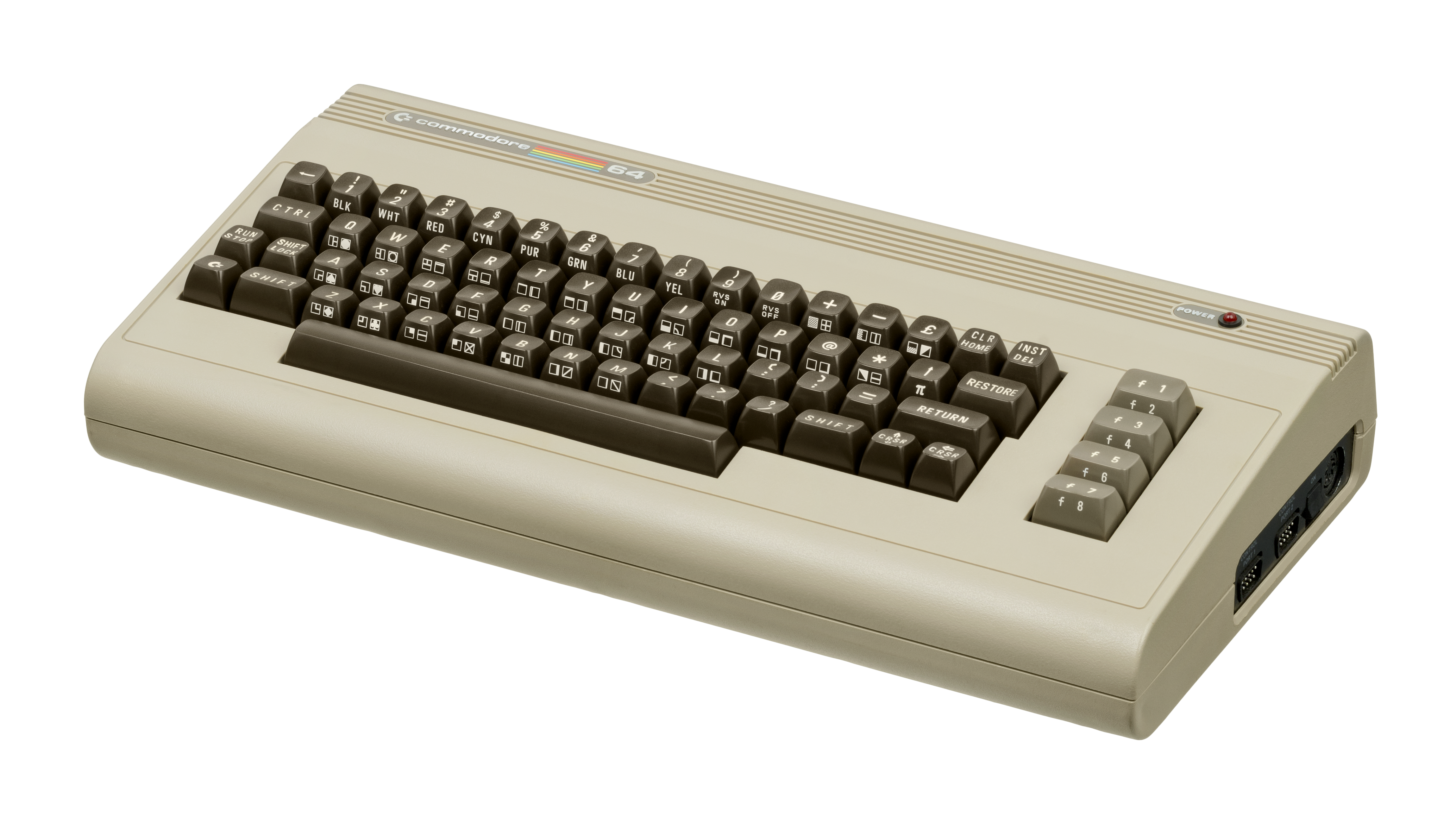 A Commodore 64, an 8-bit home computer introduced in 1982 by Commodore International. Its low retail price and easy availability led to the system becoming the market leader for three years. It remains the best-selling single personal computer model of all time.